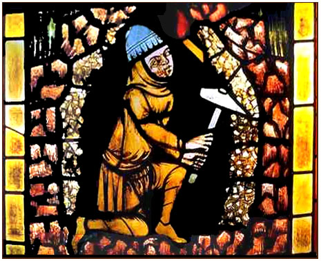 Freiburg Miner, from the Schauinsland window (1330) in the cathedral of Freiburg-im-Breisgau, Germany